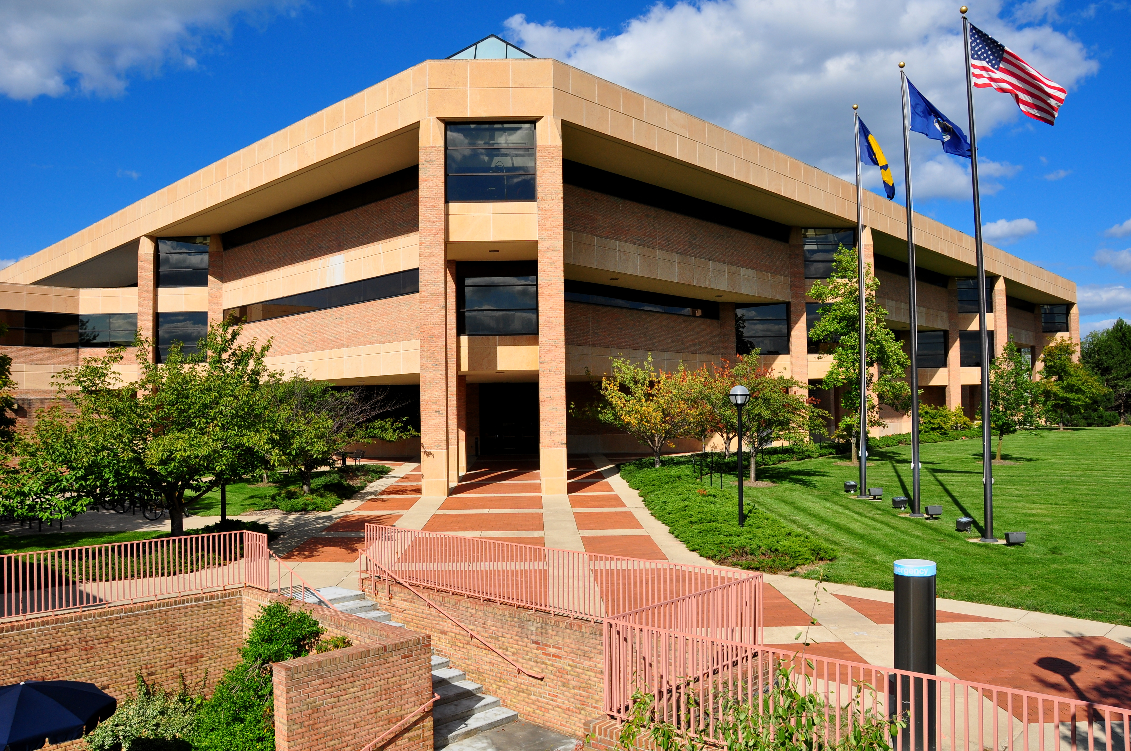 Duderstadt Center